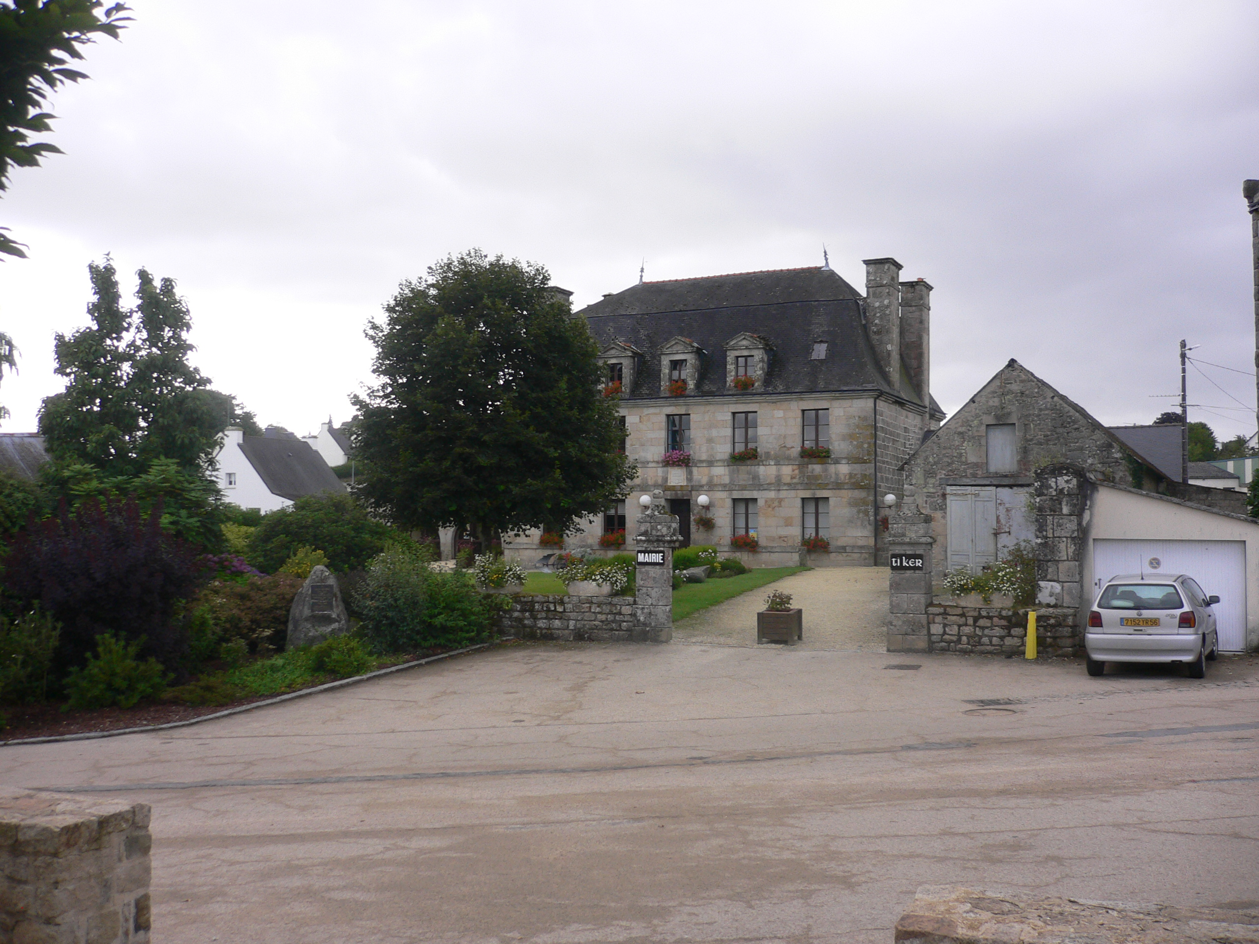 city hall of Ploerdut